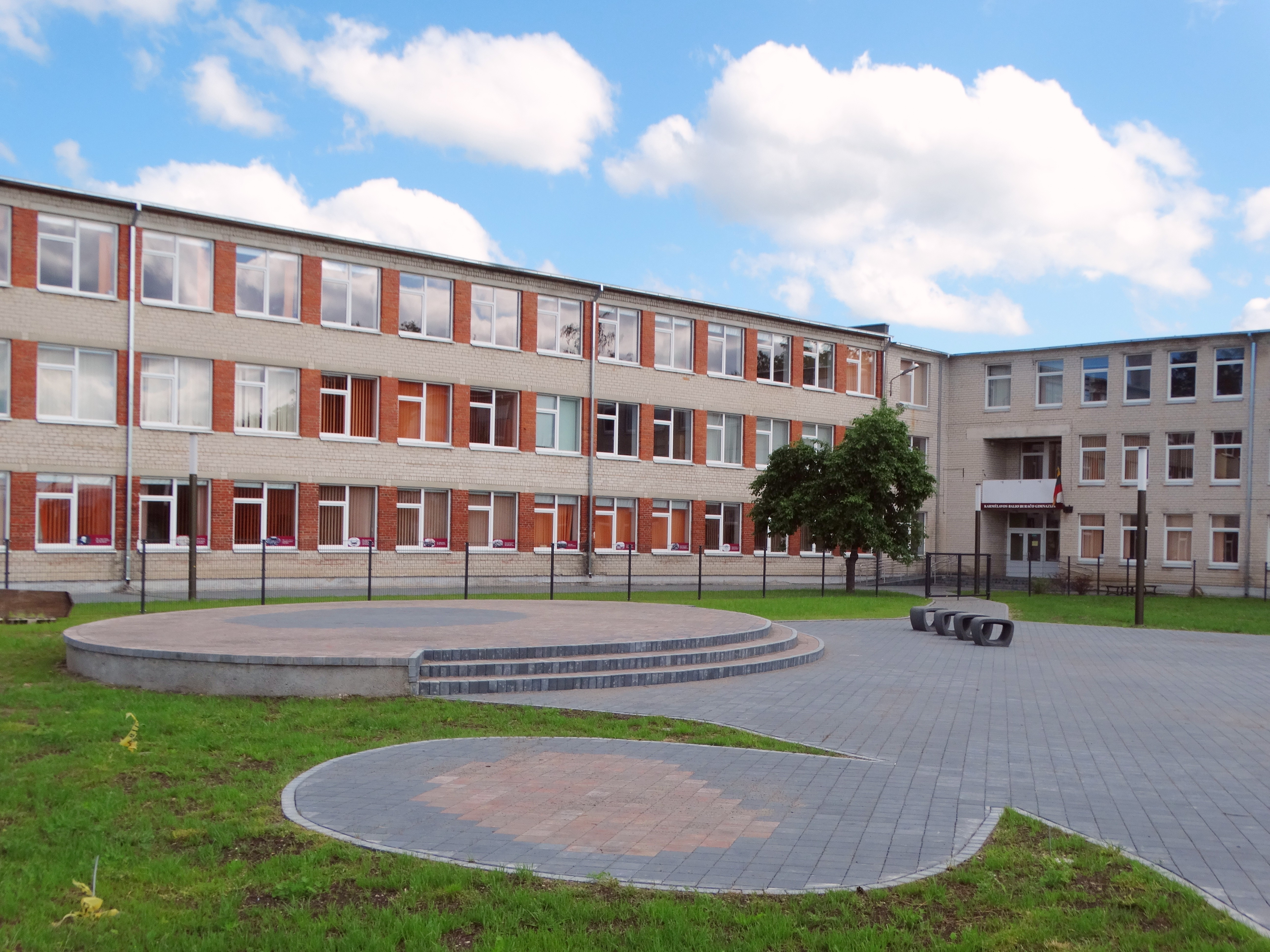 Gymnasium, Karmėlava, Lithuania